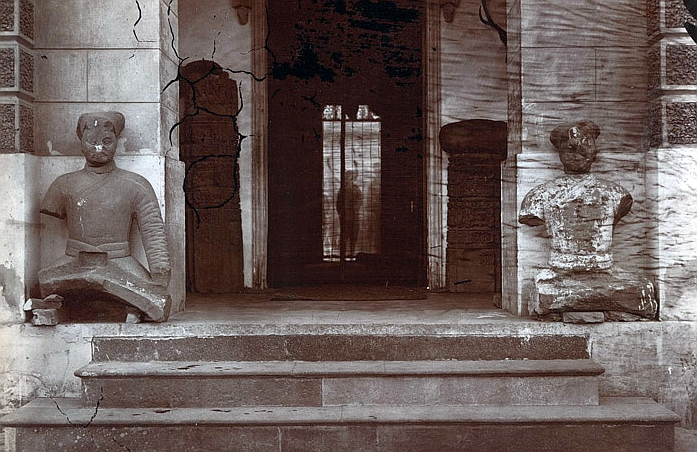 Photograph of two statues of elephant riders at Delhi from the Archaeological Survey of India Collections, taken by Joseph David Beglar in the 1870s. This is a general view of the statues, carved in red sandstone, which were originally mounted on a pair of life-sized black marble elephants. The riders became separated from their mounts and are shown displayed at either side of the entrance to an unidentified house. The figures are of the upper half only, with curved bases which would be seated on the backs of the elephants. The elephants stood outside the Delhi Gate at the Lal Qila or Red Fort and their riders represented Jaimal and Patta, two heroic Rajput chiefs who defended the fortress of Chitor against the Mughal emperor Akbar. In ‘Archaeological Survey of India: Four reports made during the years 1862-63-64-65’ (Simla, 1871), Alexander Cunningham concludes that the statues originally stood outside the fort at Agra and were brought from there to Delhi. At some point they were moved from the Delhi Gate but the elephants were later reinstated by Lord Curzon, Viceroy of India between 1899 and 1905. Print 877 from the same collection is a view of one of the elephants.